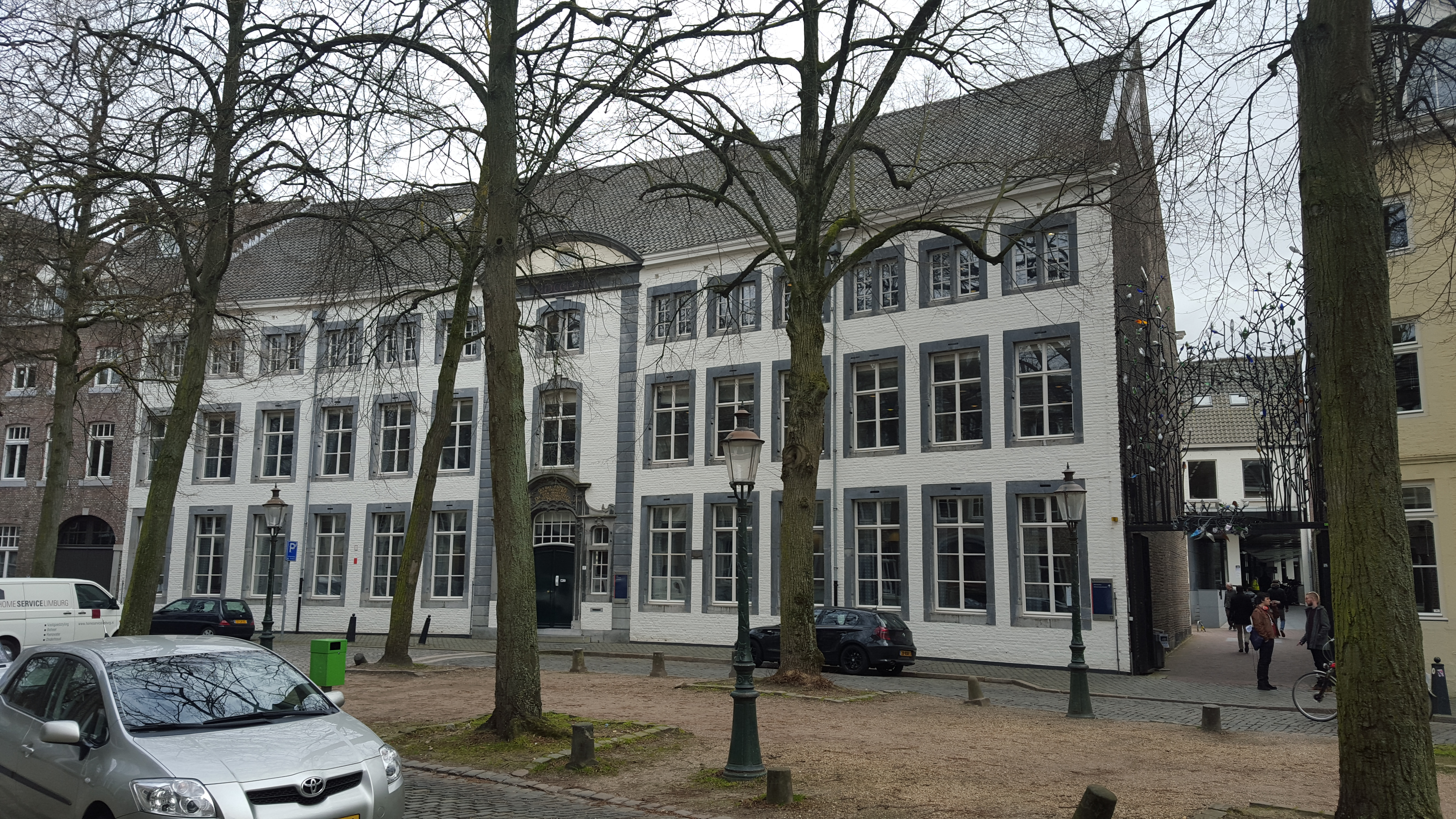 University Library at the Grote Looiersstraat 17, Maastricht, Netherlands